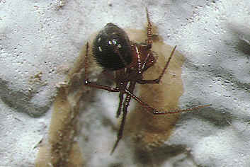 female Nesticodes rufipes from Okinawa.